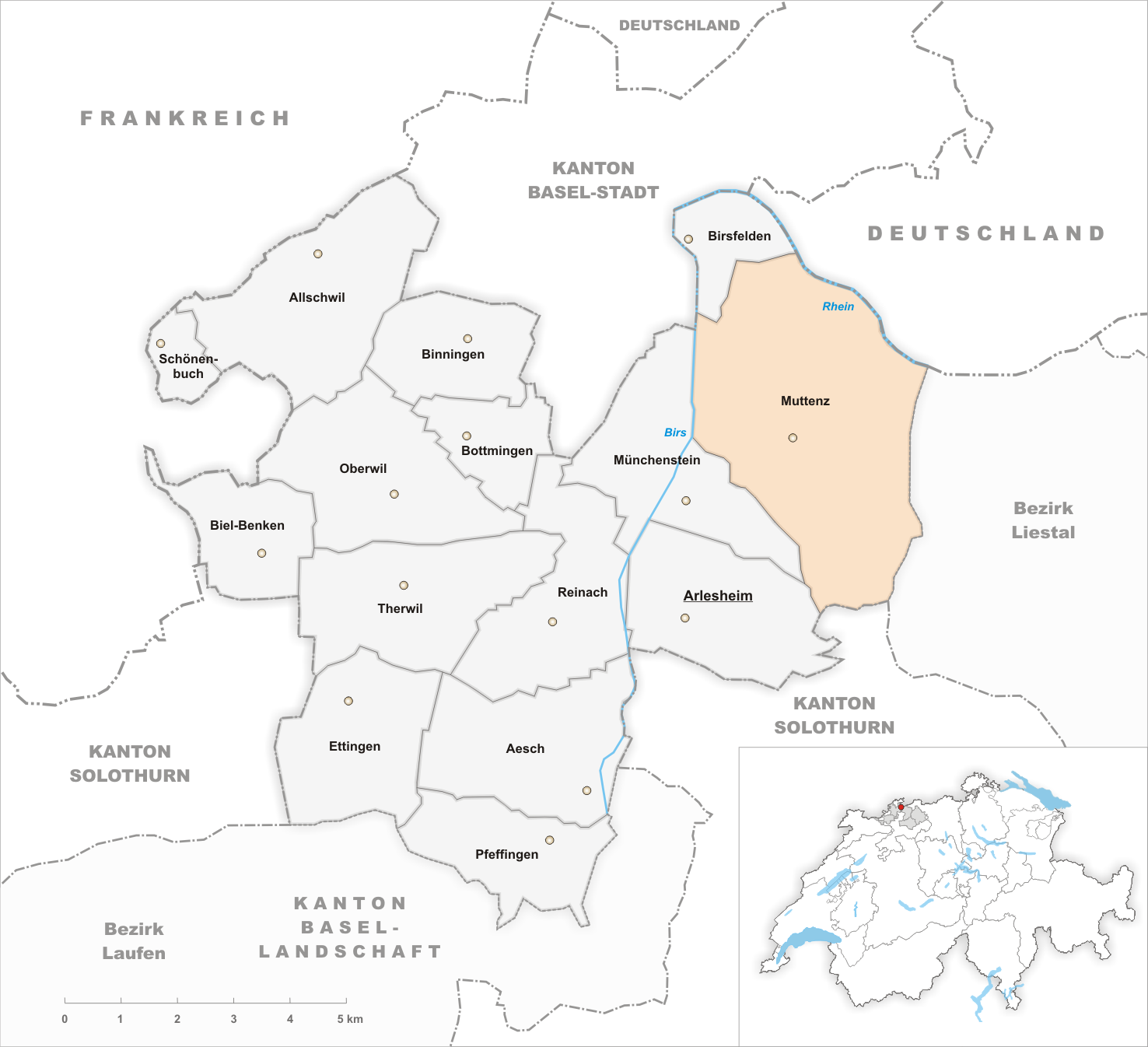 Municipality Muttenz